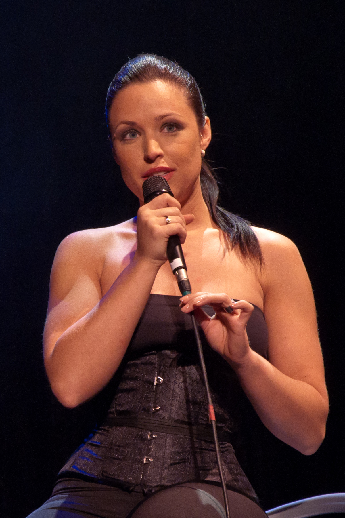 French-Canadian singer Natasha St-Pier singing in concert during her 2010 tour. Location: Denain, France.